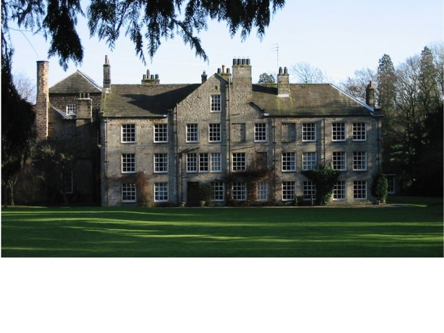 Grantley Hall When it was owned by North Yorkshire County Council.